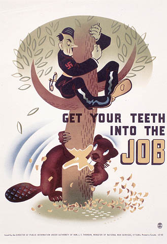 Get Your Teeth into the Job : Canada's war effort and production sensitive campaign. Caricature of Adolf Hitler is trapped up a tree while the Beaver symbolizing Canada gnaws it down.